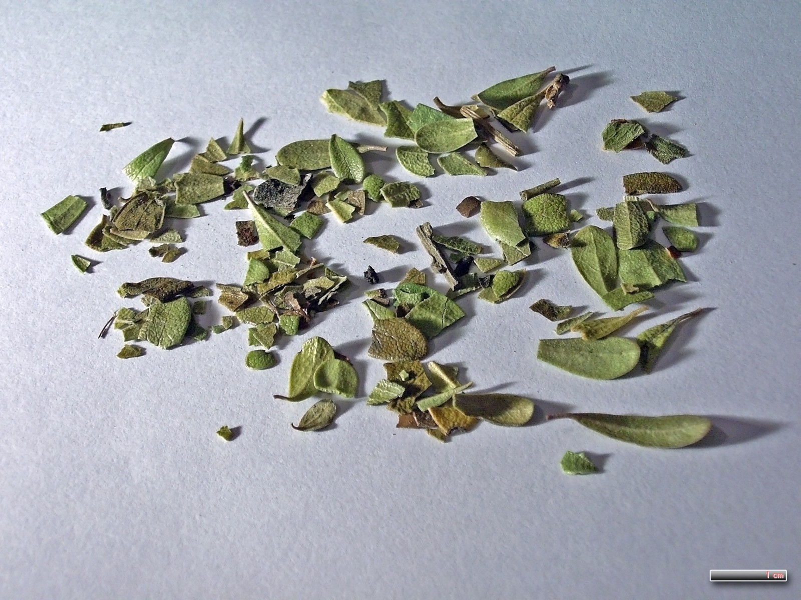 dried Arctostaphylos uva-ursi, Kinnikinnick, Pinemat manzanita, Bearberry; Leaves